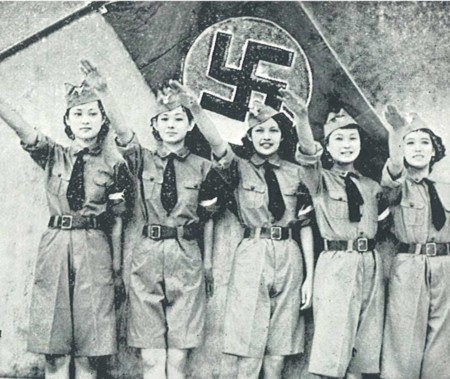 A scene from a musical revue entitled "Heil Hitler" by the Nichigeki dancing team, staged at Tokyo's Nichigeki Music Hall, Yūrakuchō to welcome the Hitlerjugend that visited Japan in September 1938. From left to right: Keiko Suda, Sanae Shibata, Akemi Shirogane, Chizuko Osabe, Midori Ono. According to the caption in Japanese, the uniform style matches more the United States Army or the Royal Thai Army.